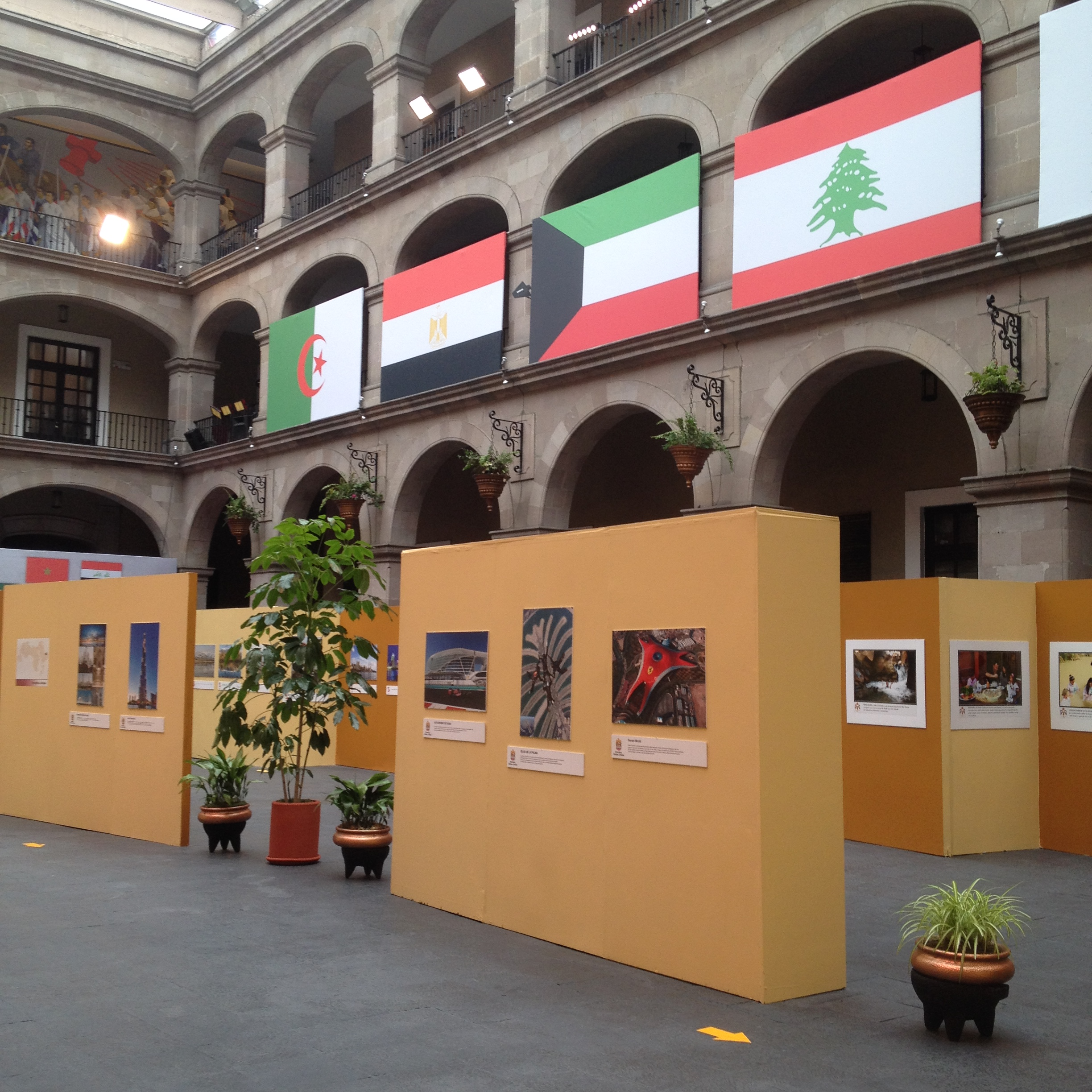 Exhibit of Mexica-Arab Friendship